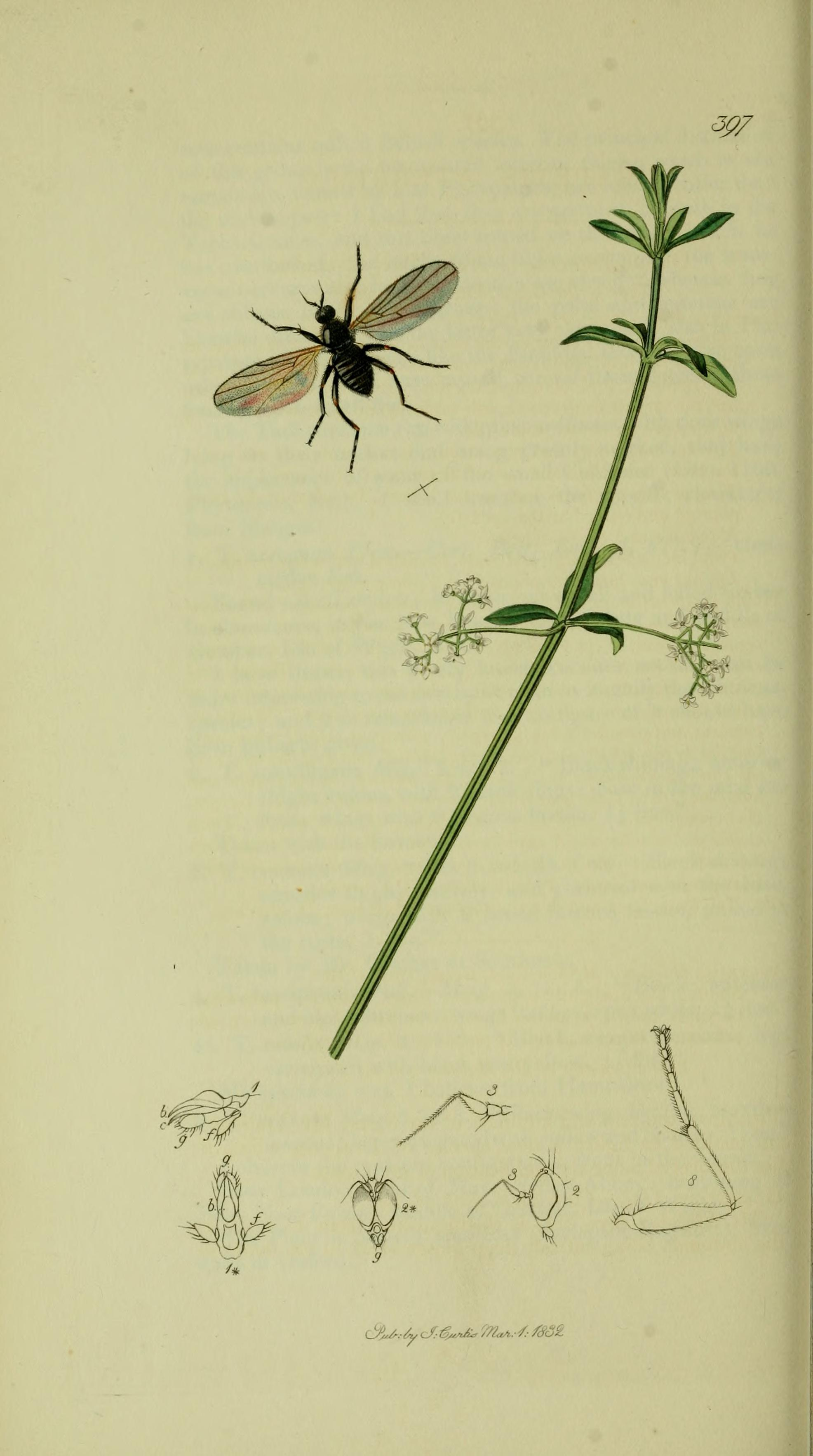 John Curtis British Entomology (1824-1840) Folio 397 Diptera: Drapetis aterrima = Crossopalpus curvipes (Sea-coast Drapetis).The plant is Galium palustre White Water-bedstraw